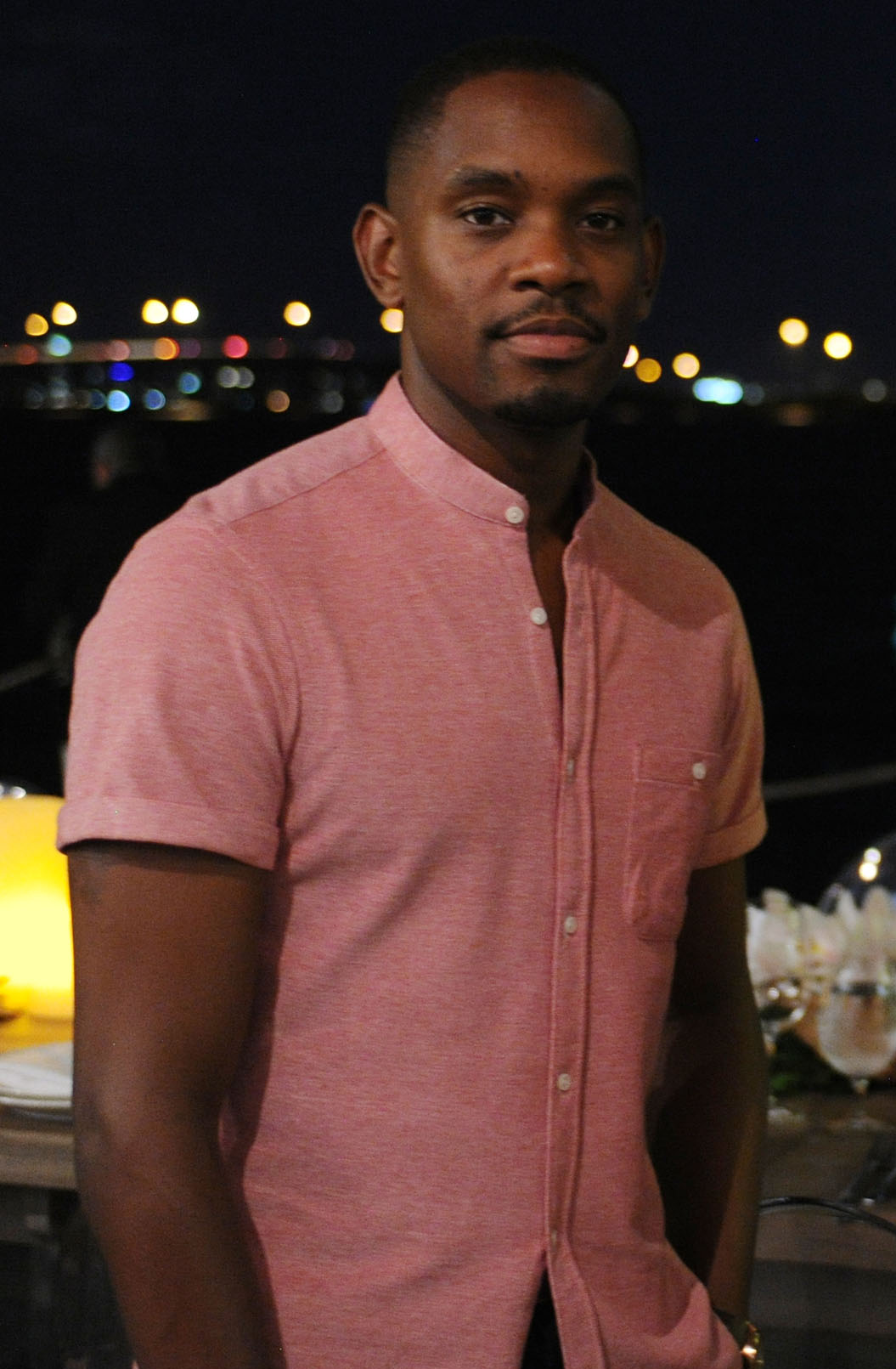 Aml Ameen & Darrell Britt-Gibson at the Miami International Film Festival GEMS presentation of "Soy Nero"